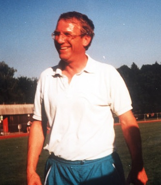 Erich Schmeil in 1991